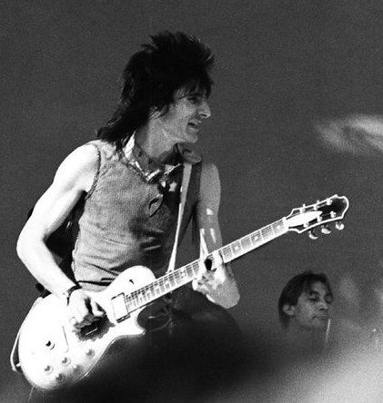 Wood, of The Rolling Stones. Candlestick Park, San Francisco (Charlie Watts in background)